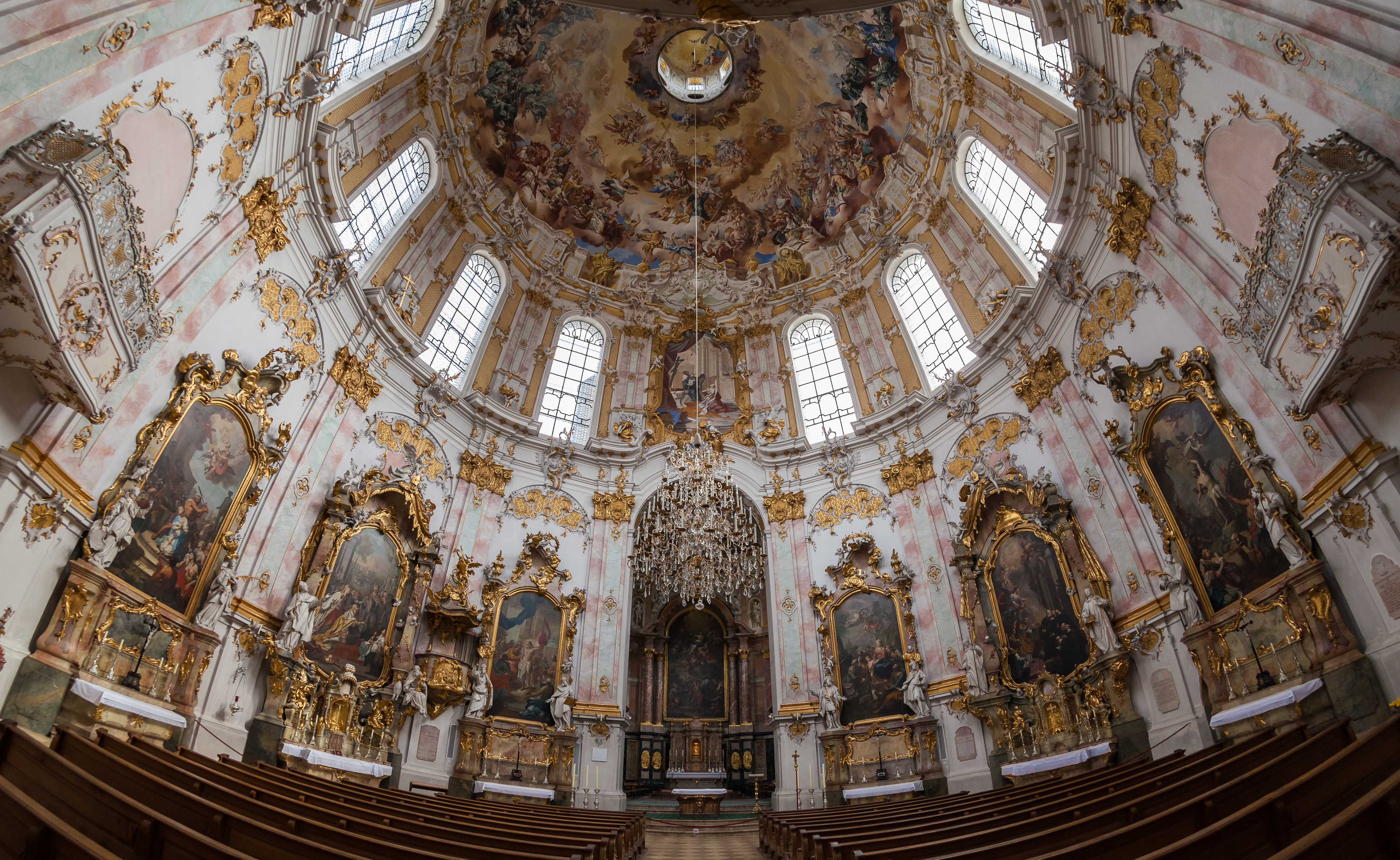 Ettal Abbey, Bavaria, Germany